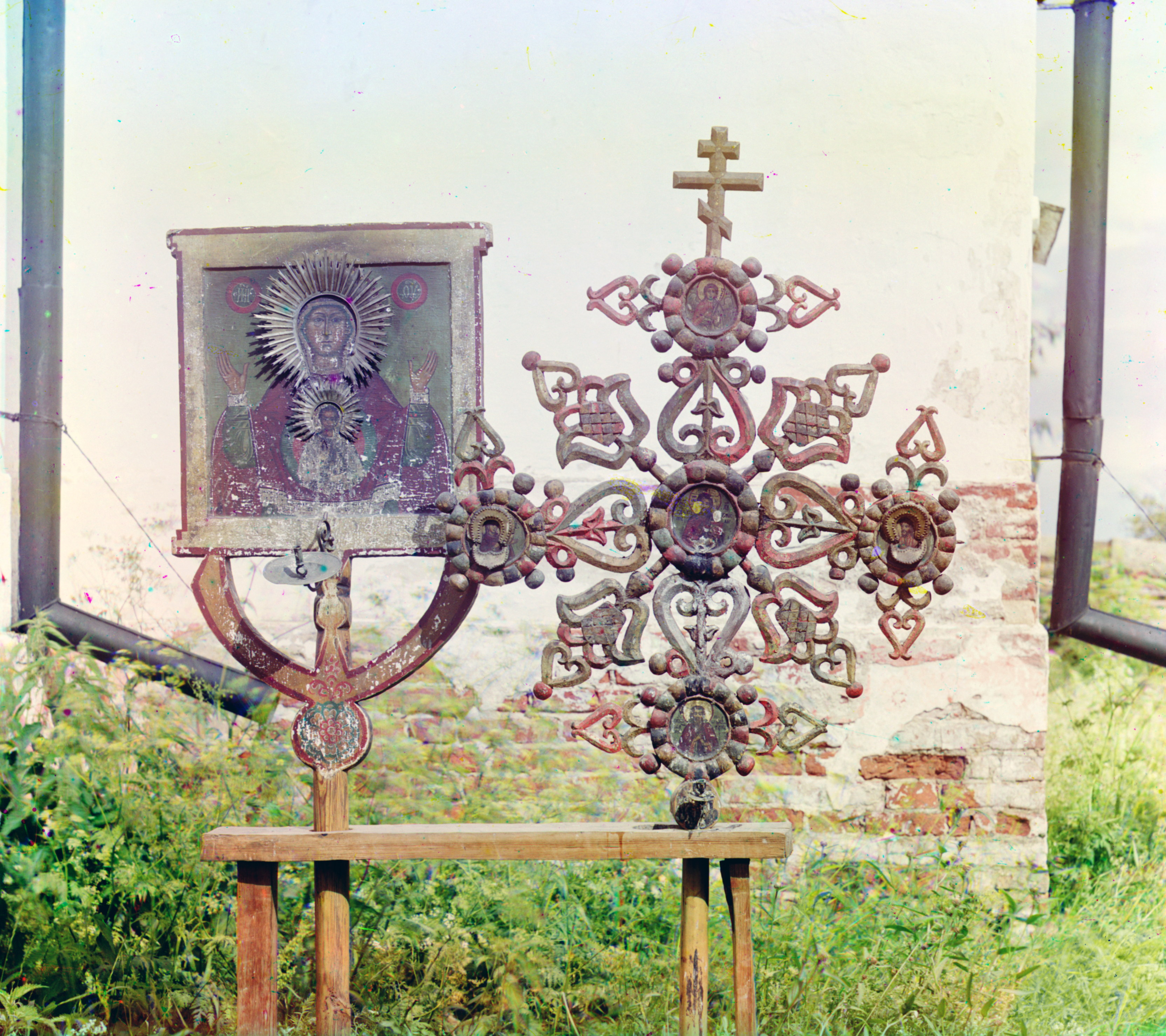 Altar cross and icon in the Church of the Transfiguration. (Pidma, Russian Empire)